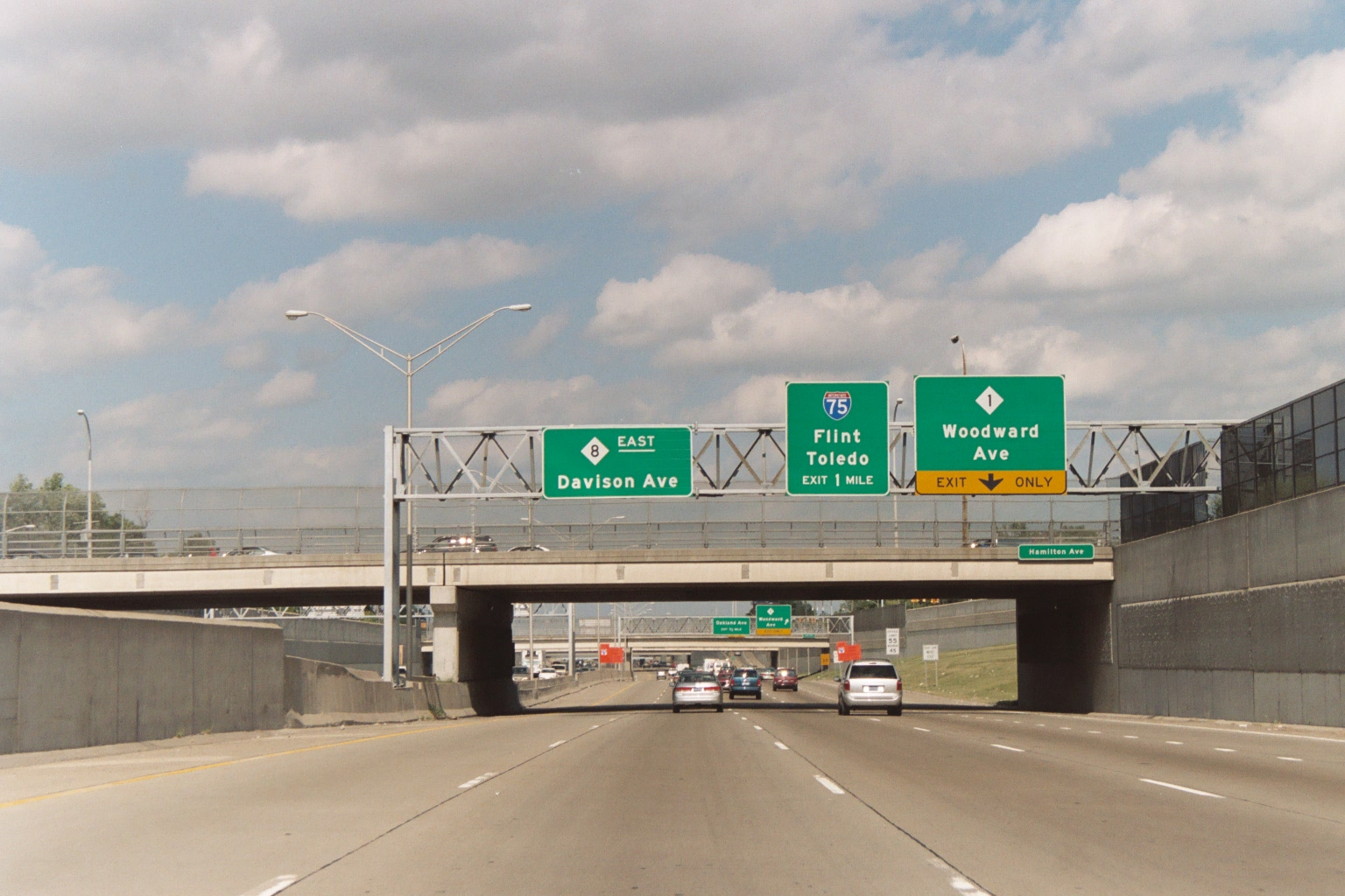 Eastbound M-8 (Davison Freeway) near the interchange with M-1 (Woodward Avenue) in Highland Park, Michigan